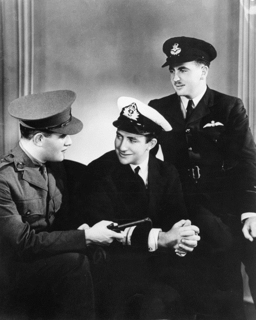 Studio portrait of brothers VX61887 Captain Lindsay Newton, a dentist in the Australian Army Medical Corps, Surgeon Lieutenant John Newton, Royal Australian Navy, and 250748 Flight Lieutenant William (Bill) Newton, Royal Australian Air Force. The photograph was a spontaneous idea after the three brothers met by chance at the Hotel Australia in Melbourne. Flight Lieutenant William Newton would later be awarded the Victoria Cross. The award was made posthumously as Newton was executed by the Japanese on 29 March 1943 after being shot down over Salamaua. Surgeon Lieutenant John Newton survived the sinking of HMAS Canberra on 9 August 1942.